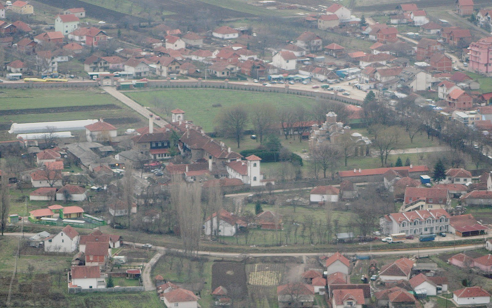 Aerial view of the Gračanica/Graçanicë monastery